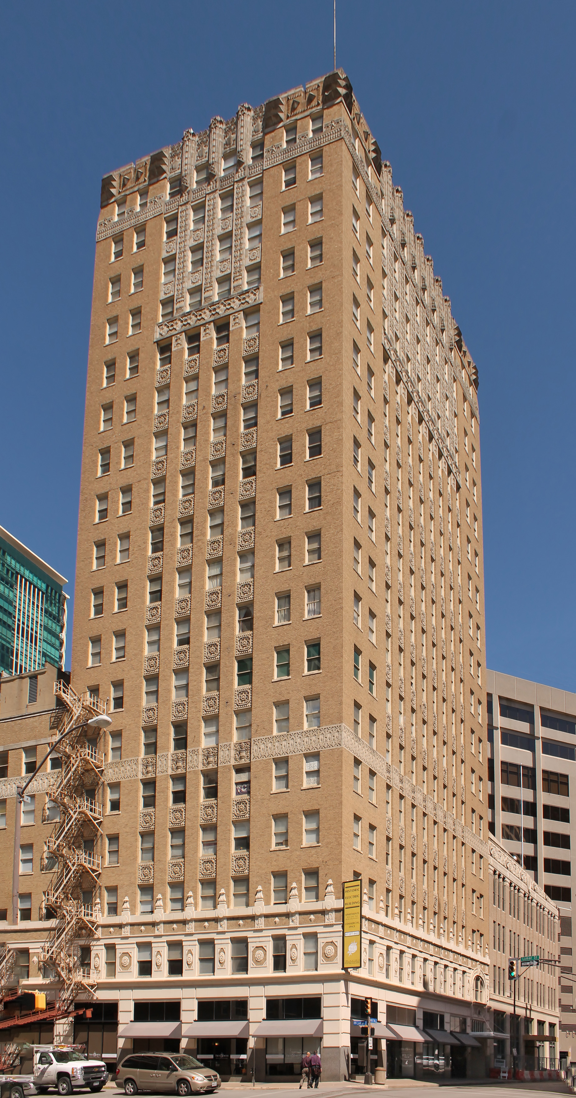 Electric Building in downtown Fort Worth, Texas